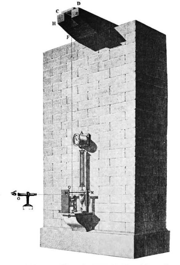 Drawing of pendulum experiment to determine the length of the seconds pendulum at Paris, conducted in 1792 by Jean-Charles de Borda and Jean-Dominique Cassini. From their original paper. They used a pendulum that consisted of a 1 1/2 inch (3.8 cm) platinum ball suspended by a 12 foot (3.97 m) iron wire (F,Q). It was suspended in front of the pendulum (B) of a precision clock (A). Alterations to image: moved observer (O) closer to wall to reduce unwieldy size of image, converted to PNG. Image shows aliasing artifacts (crosshatching) from scanning of original halftone image.